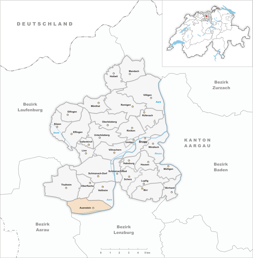 Municipality Auenstein